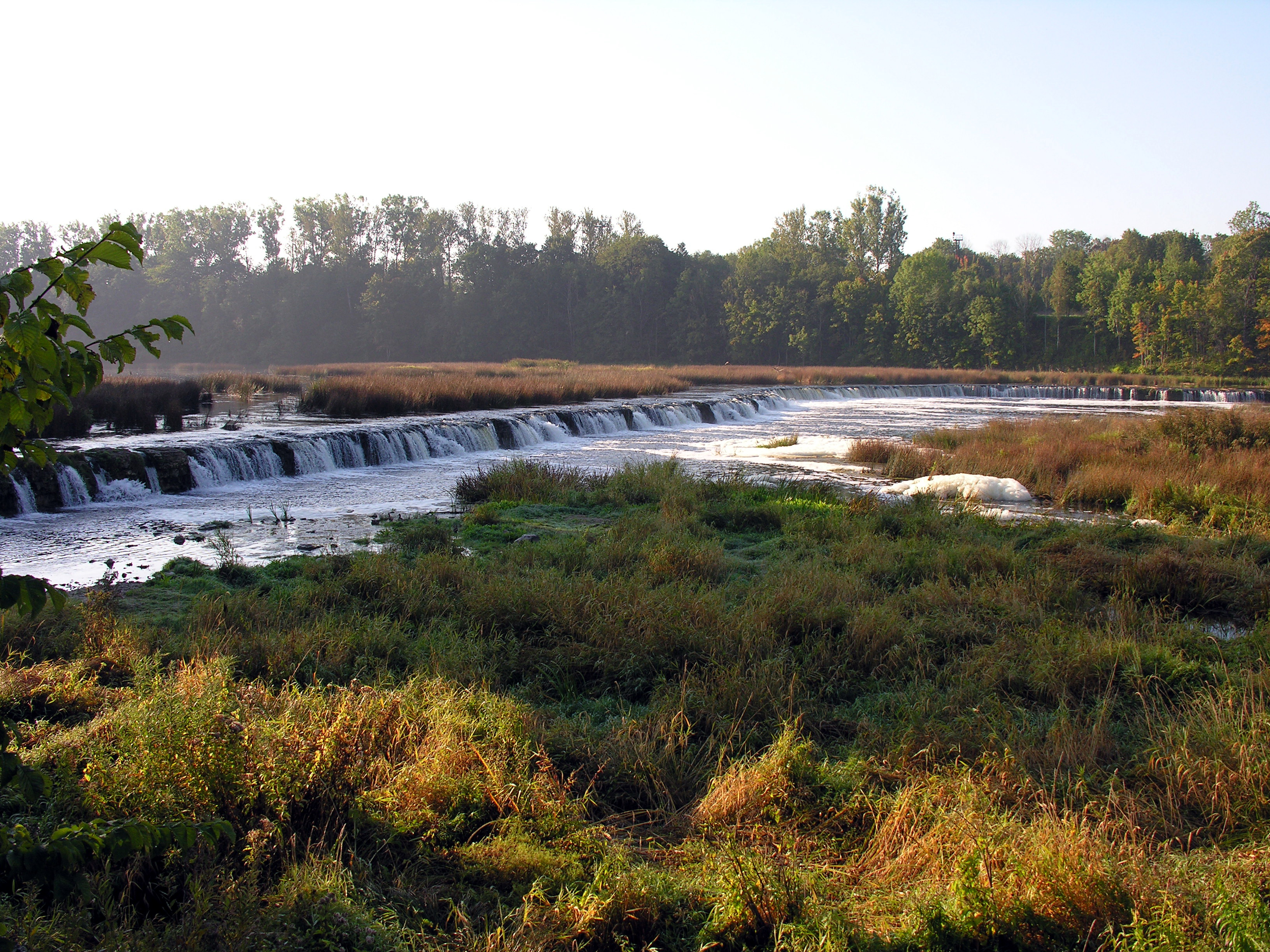 Waterval of Venta in Kuldiga